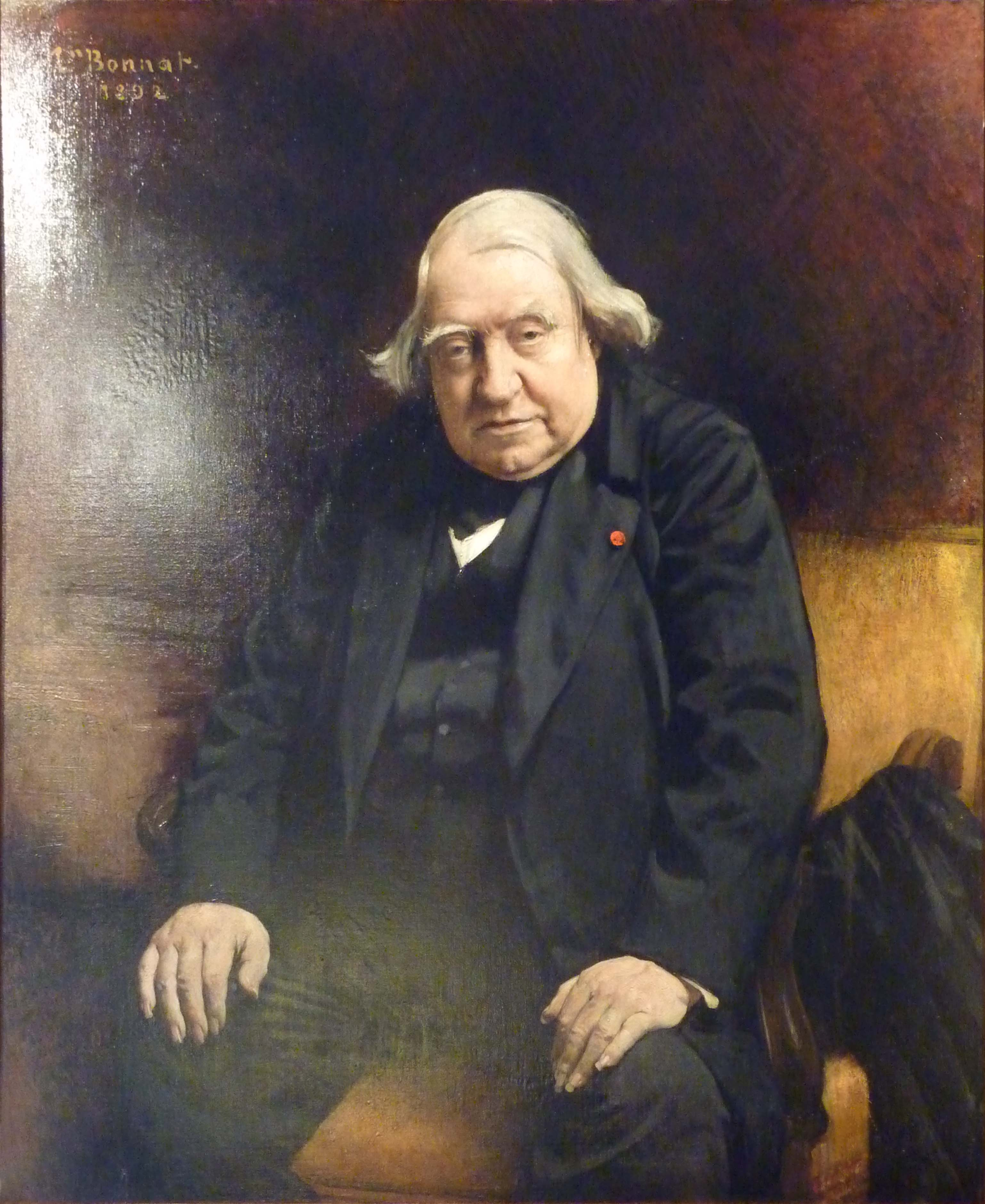 Portrait of Ernest Renan